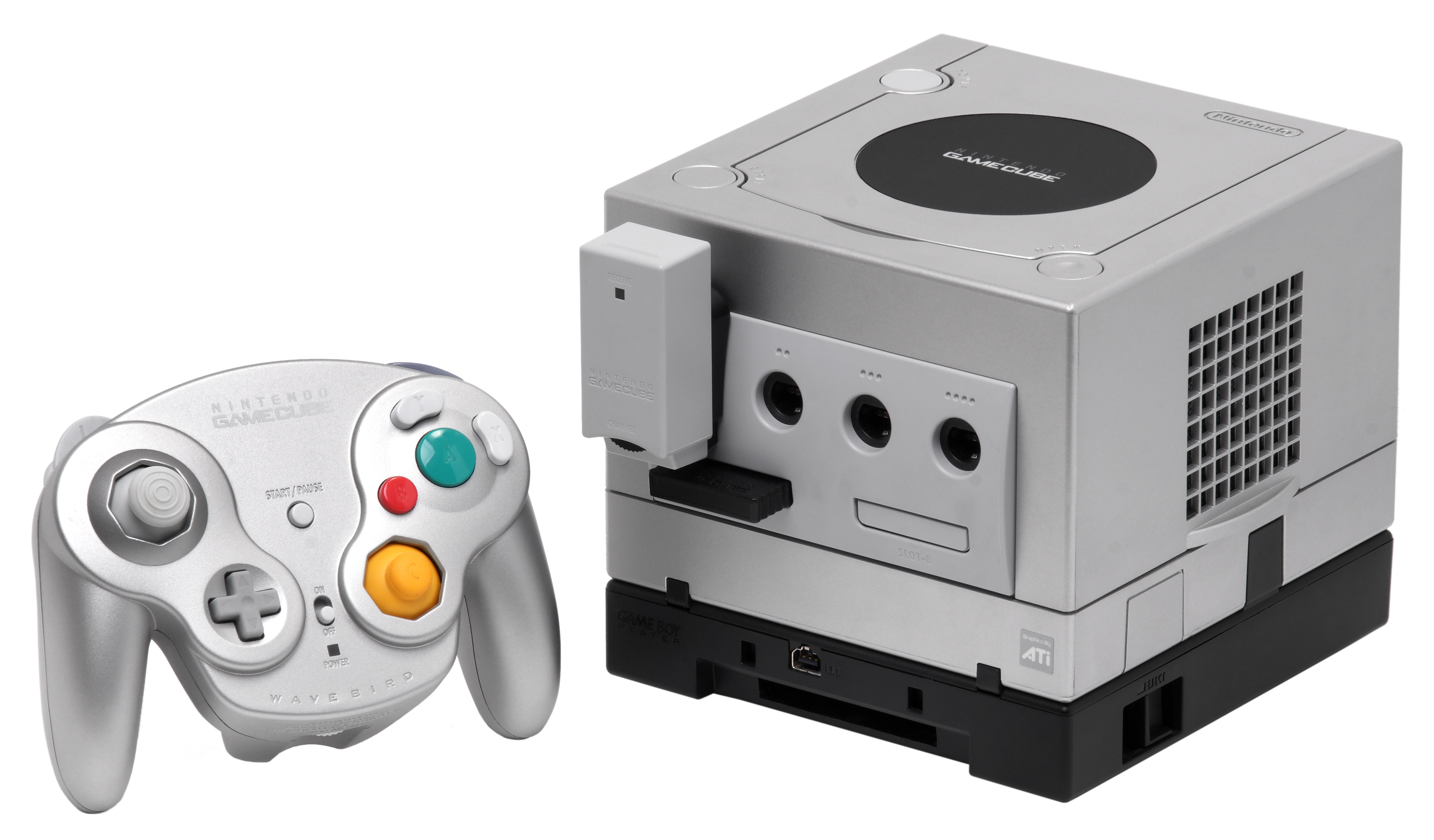 A silver Nintendo GameCube shown with a silver Wavebird wireless controller and opitional Game Boy Player.